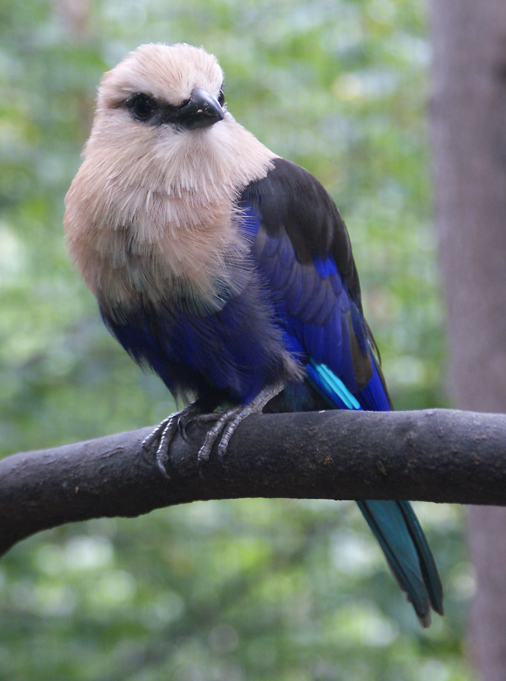 Blue-bellied Roller, Coracias cyanogaster